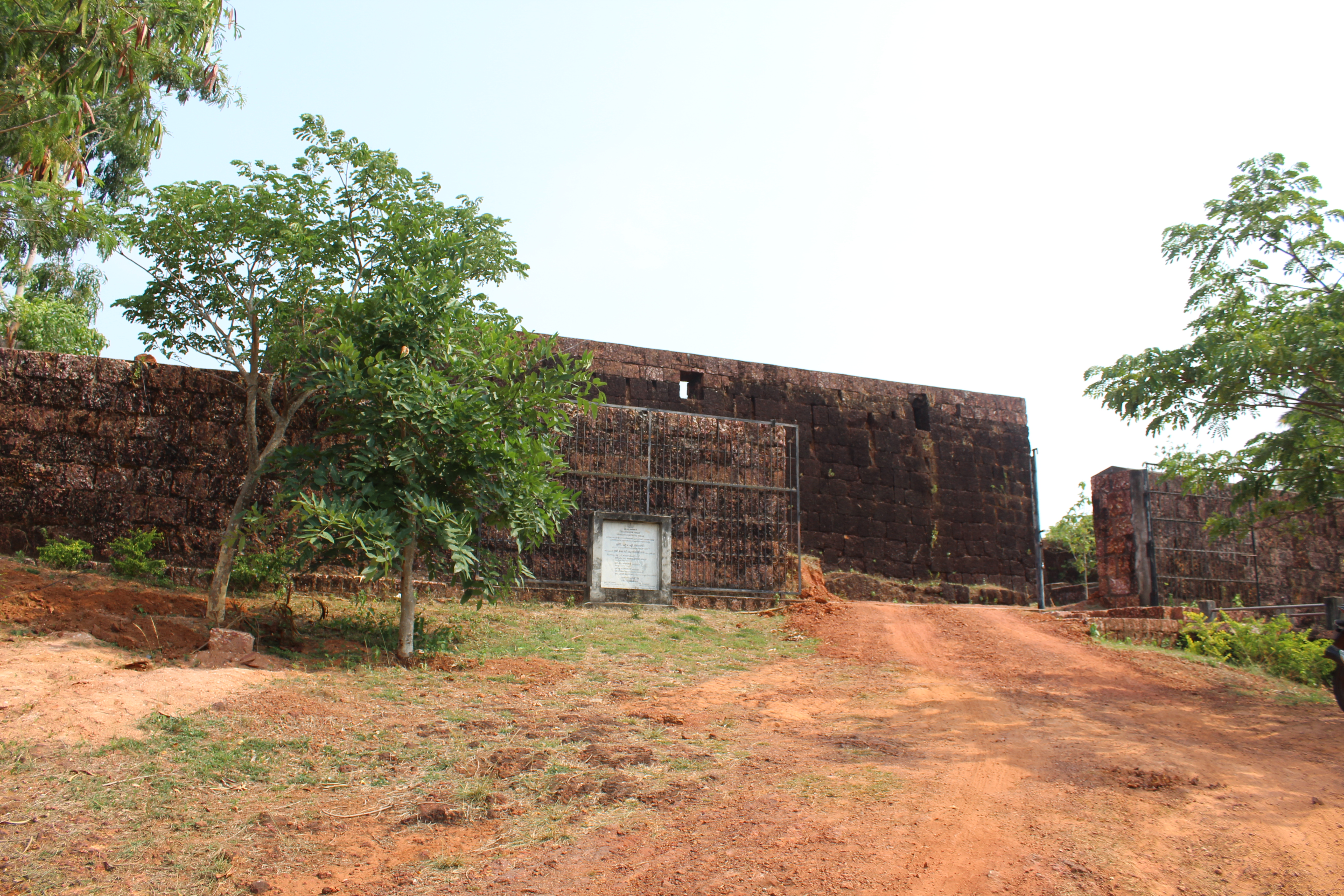 Chandragiri Fort